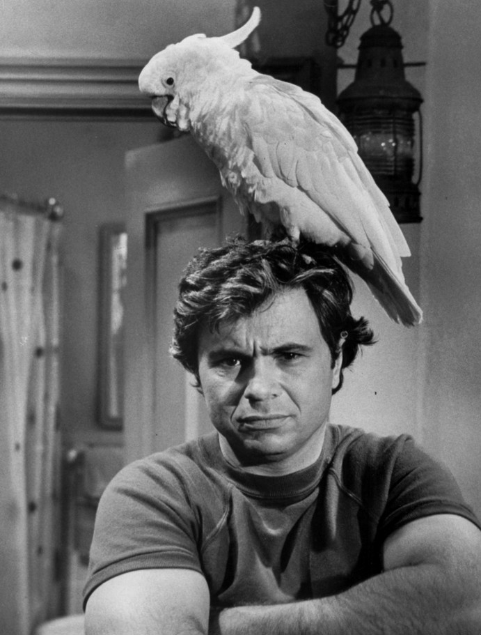 Photo of Robert Blake as Baretta and Fred from the television program Baretta.